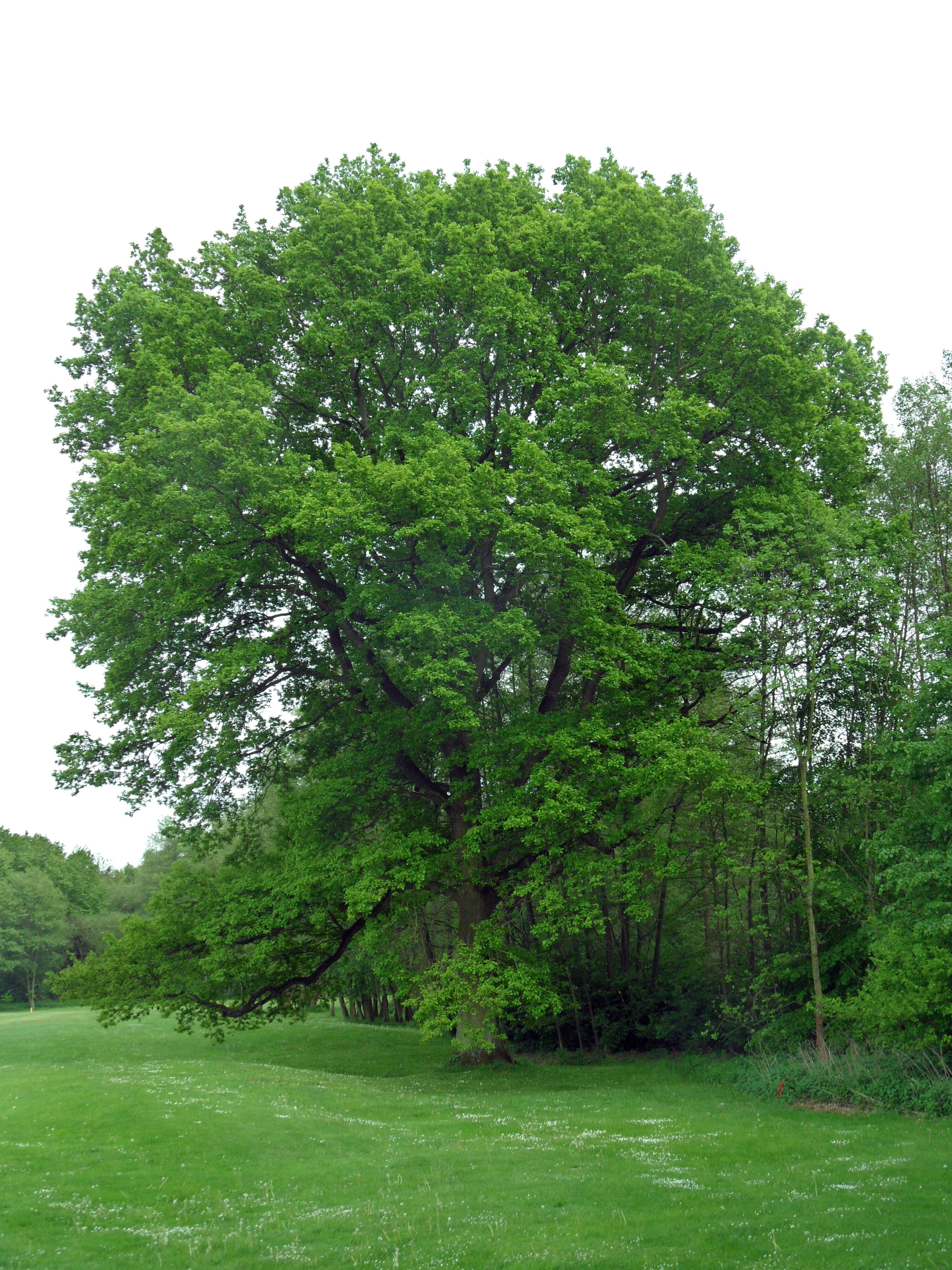 Poděbrady, Famous tree Quercus robur at Golf Poděbrady. Overview from North-West. Nymburk District, the Czech Republic.